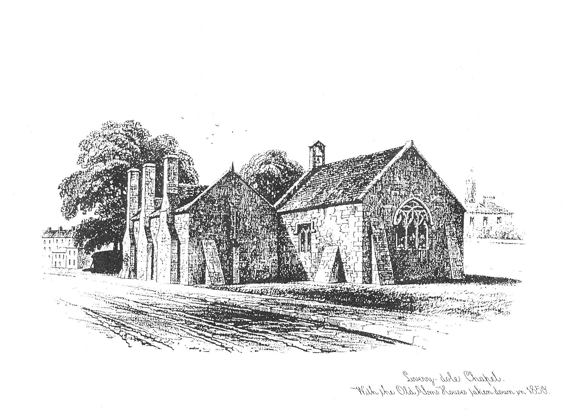 Livery Dole, Heavitree, Exeter in 1850, showing the almshouses built 1592-4 by Sir Robert Dennis (d.1592) and his son Sir Thomas Dennis, and demolished in 1850, replaced by new almshouses built in 1849 by Louisa, Lady Rolle. Drawing and lithograph by W. Spreat of Exeter. Caption: "Livery Dole Chapel with the old alms-houses taken down in 1850.